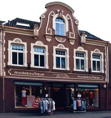 Das historische Haus auf der Hauptstraße Nr. 39 in Bergheim